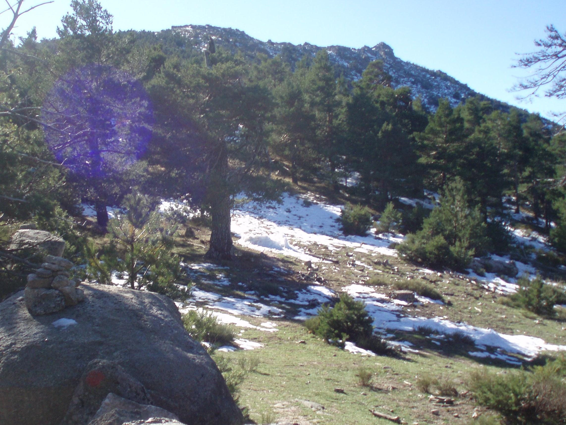 Northern face of La Peñota (Guadarrama mountain range, Central Spain).